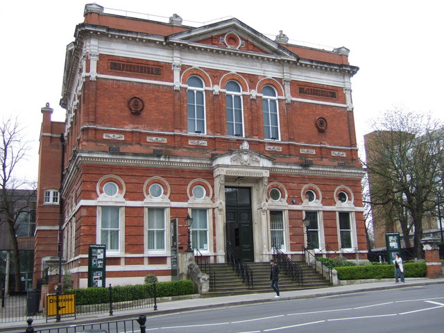 Former Hampstead town hall, Haverstock Hill A good deal more impressive than the new Camden town hall in Kings Cross, the building is still used by Camden for cultural activities, studios and the like. Of interest to the photographer whose parents were married here!